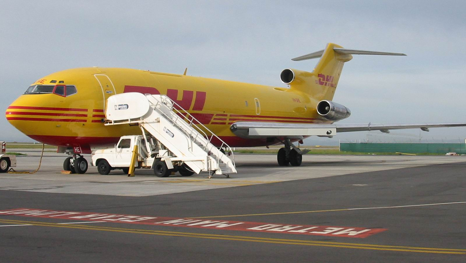 A DHL Boeing 727 freighter